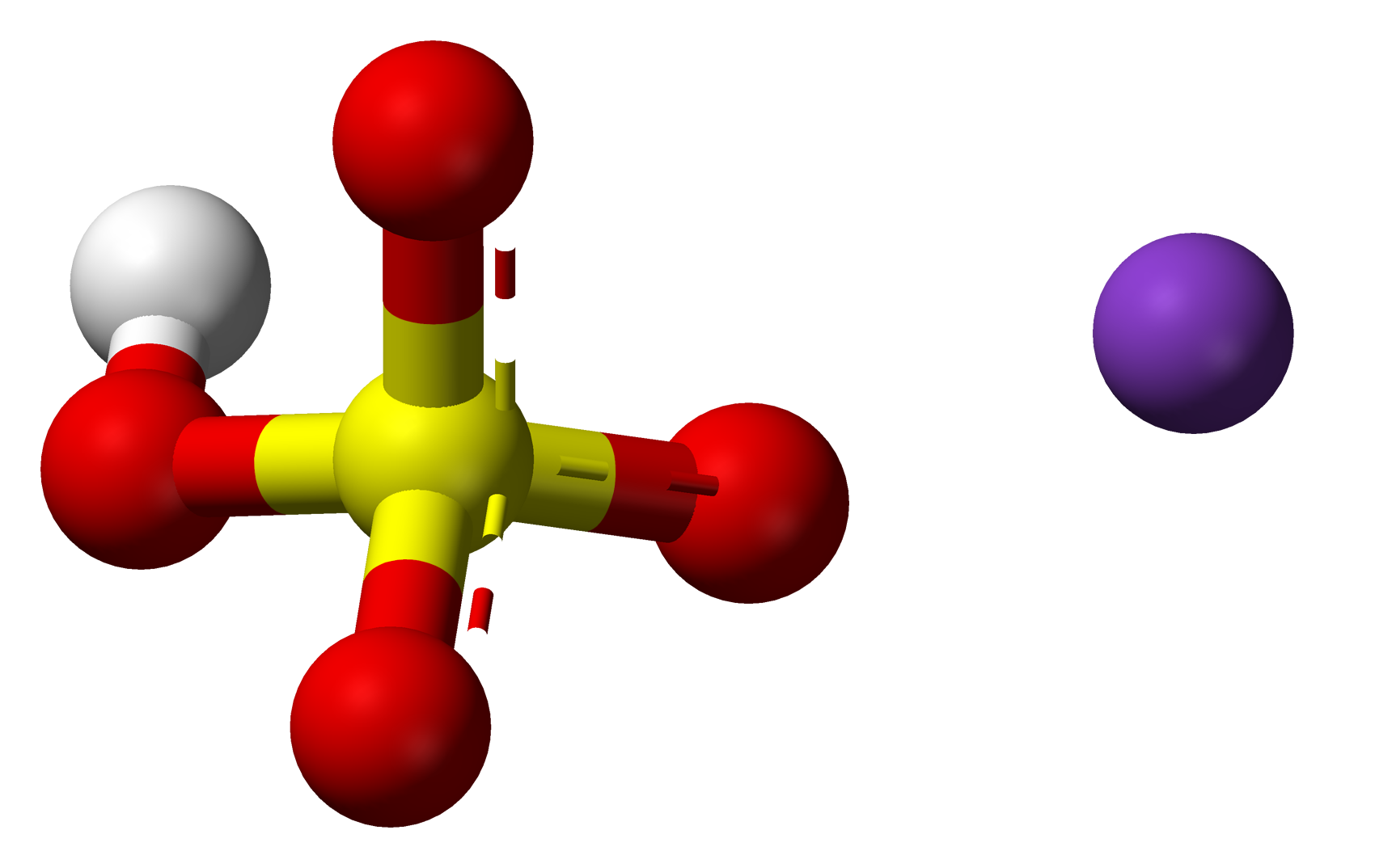 Ball-and-stick model of potassium bisulfate (also known as potassium hydrogen sulfate), an acid salt. Showing a bisulfate anion (left) and potassium cation (right).